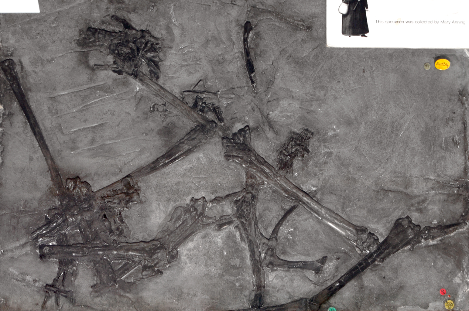 Holotype collected by Mary Anning